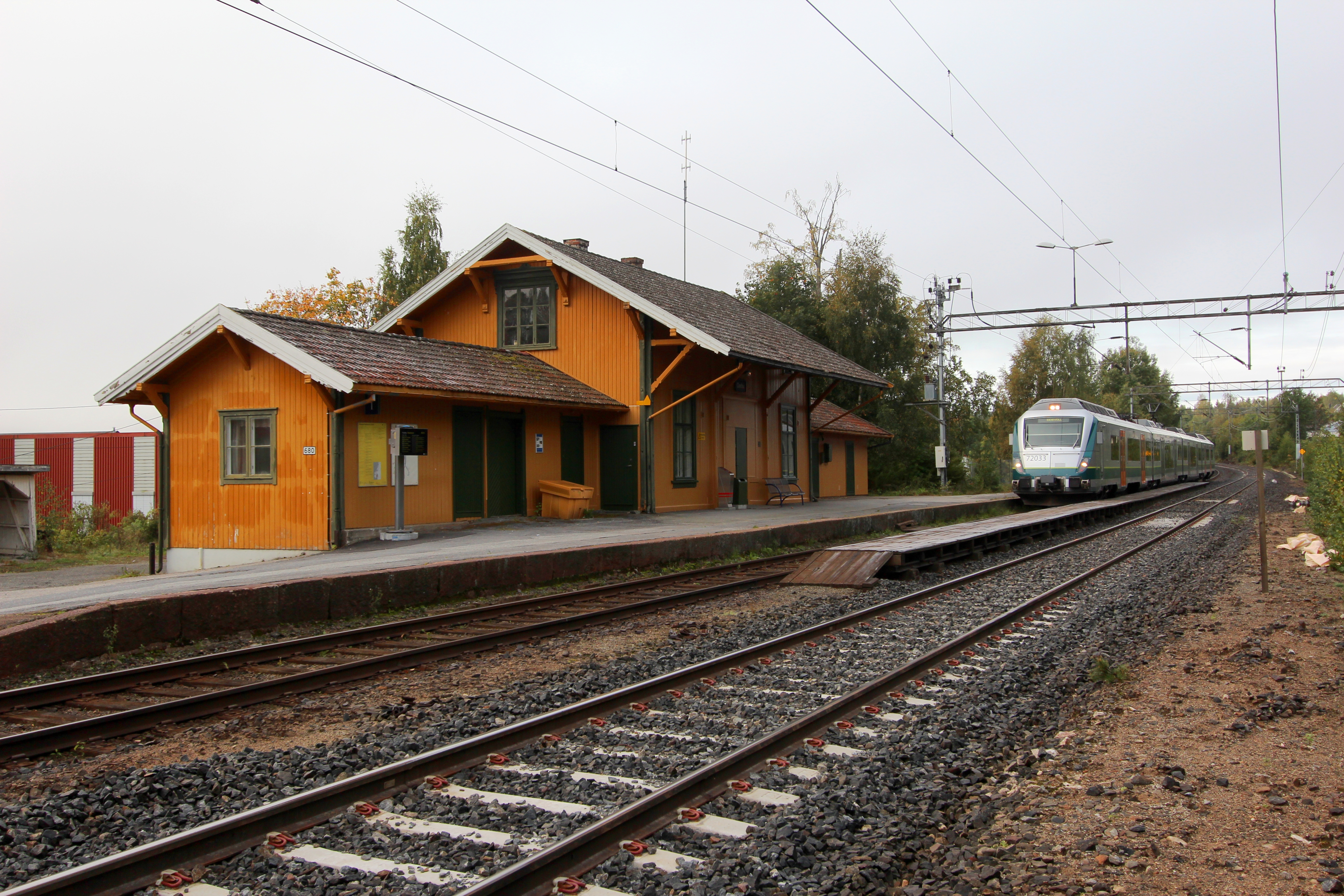 Darbu railway station, with local train arriving from Kongsberg.